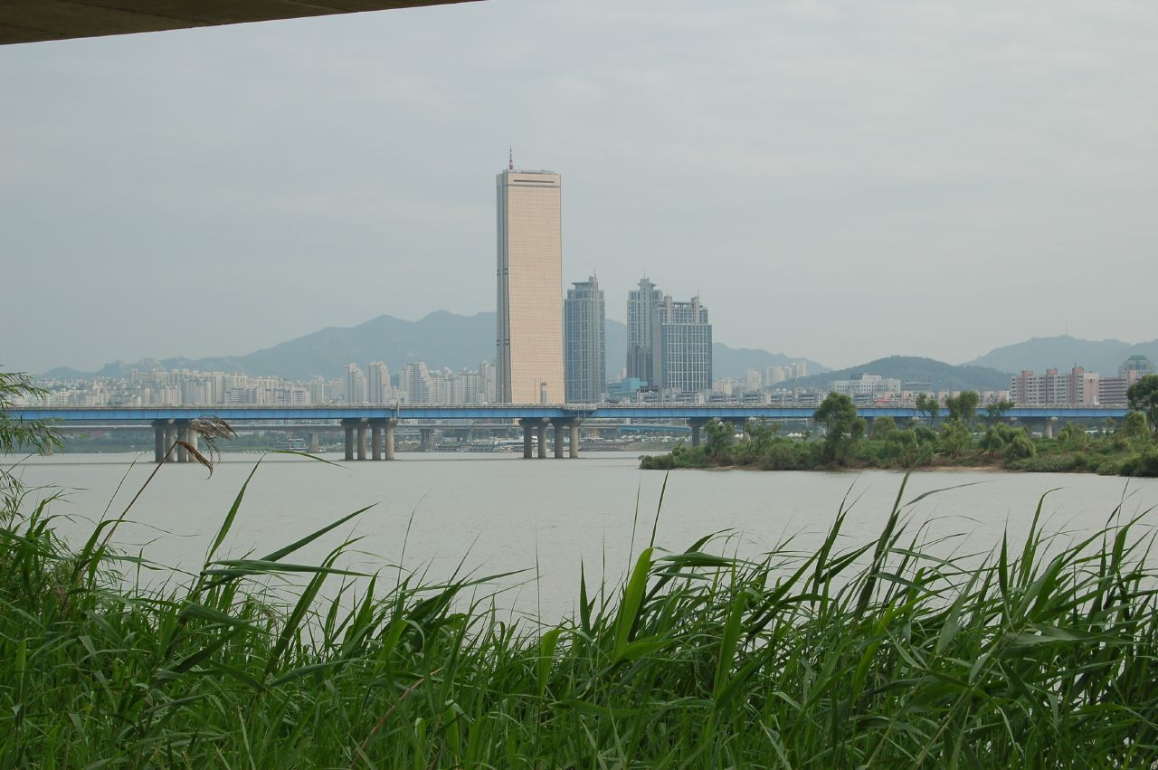 Han River bridge, Seoul, South Korea